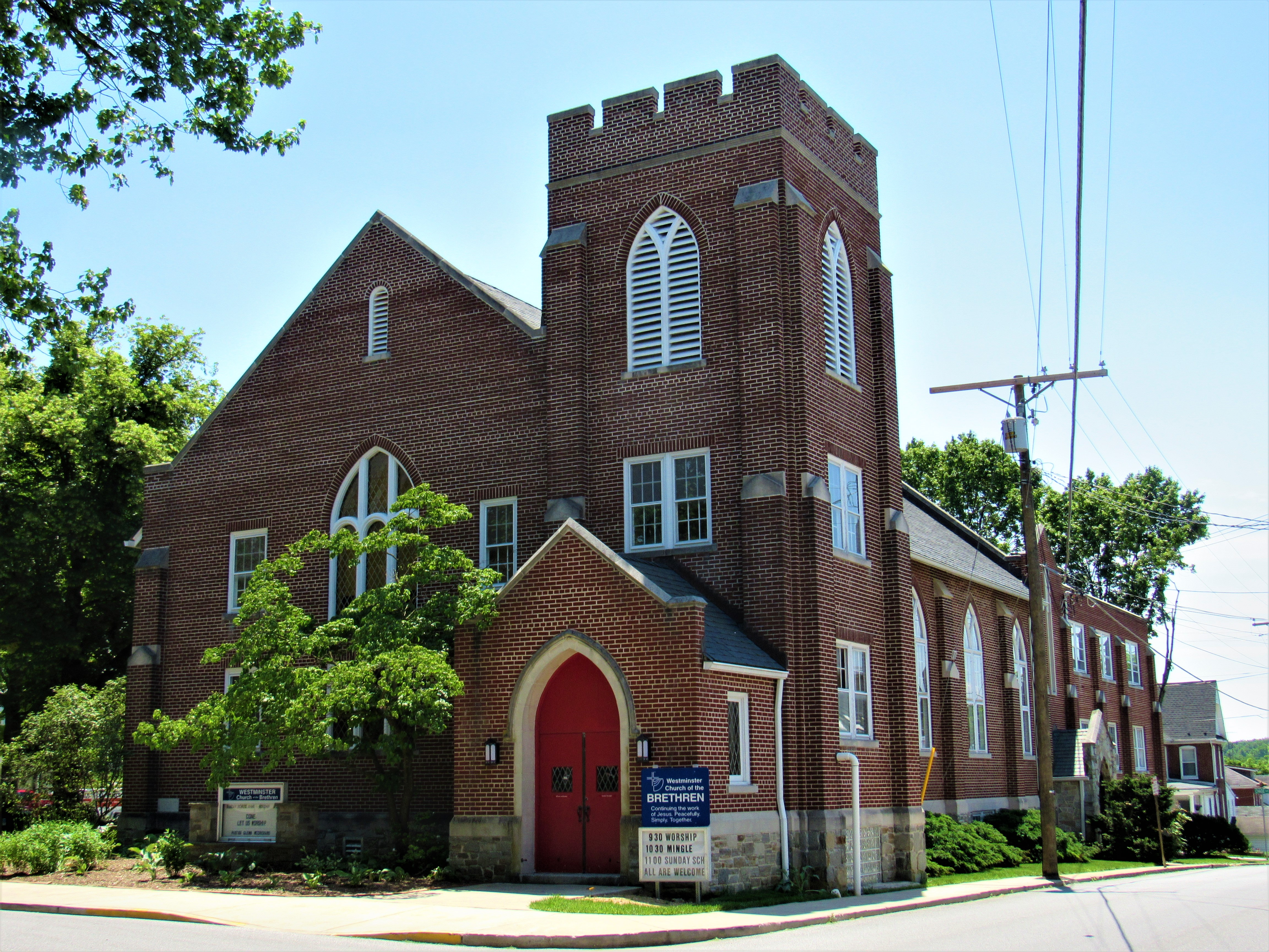 Westminster Church of the Brethren in Westminster, Maryland